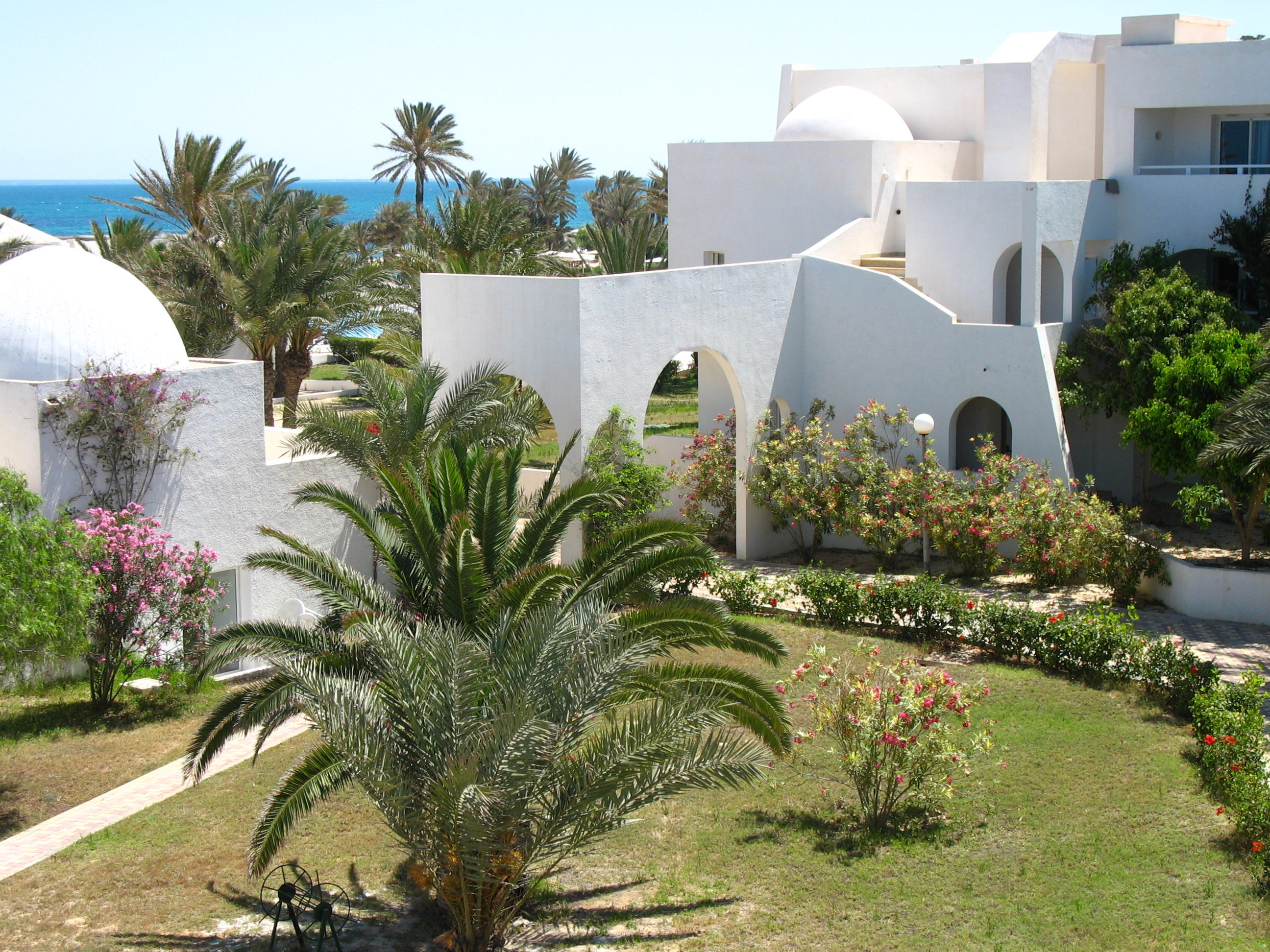 Djerba (Tunisia).